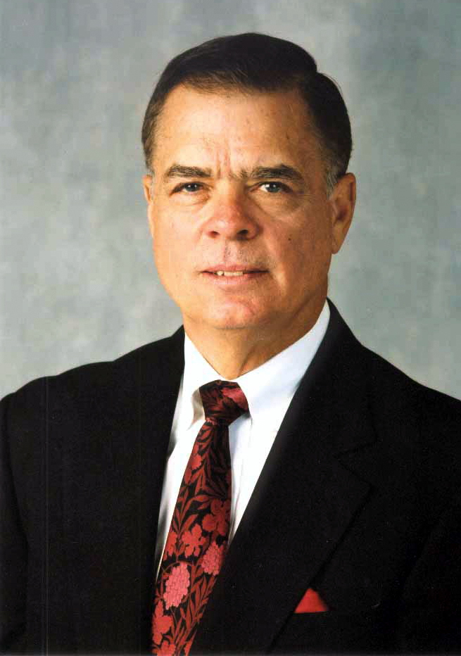 John Block -Official US Secretary of Agriculture photo.